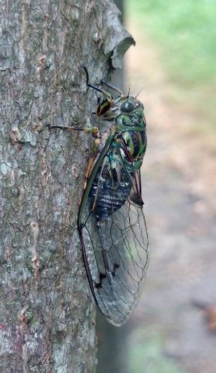 Adult chorus cicada (Amphipsalta zelandica) on a kiwifruit trunk in Te Puke